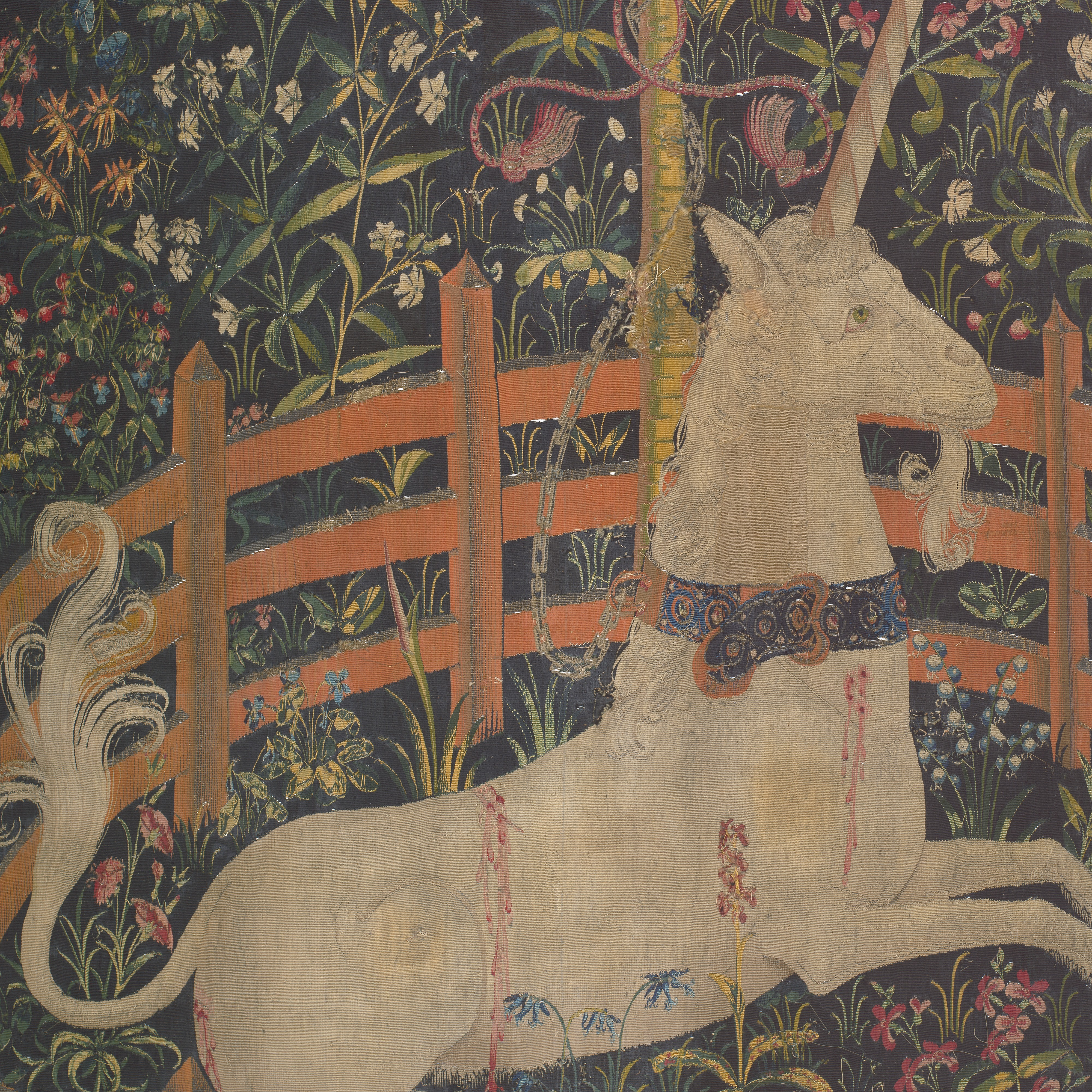 South Netherlandish; Tapestry; Textiles-Tapestries